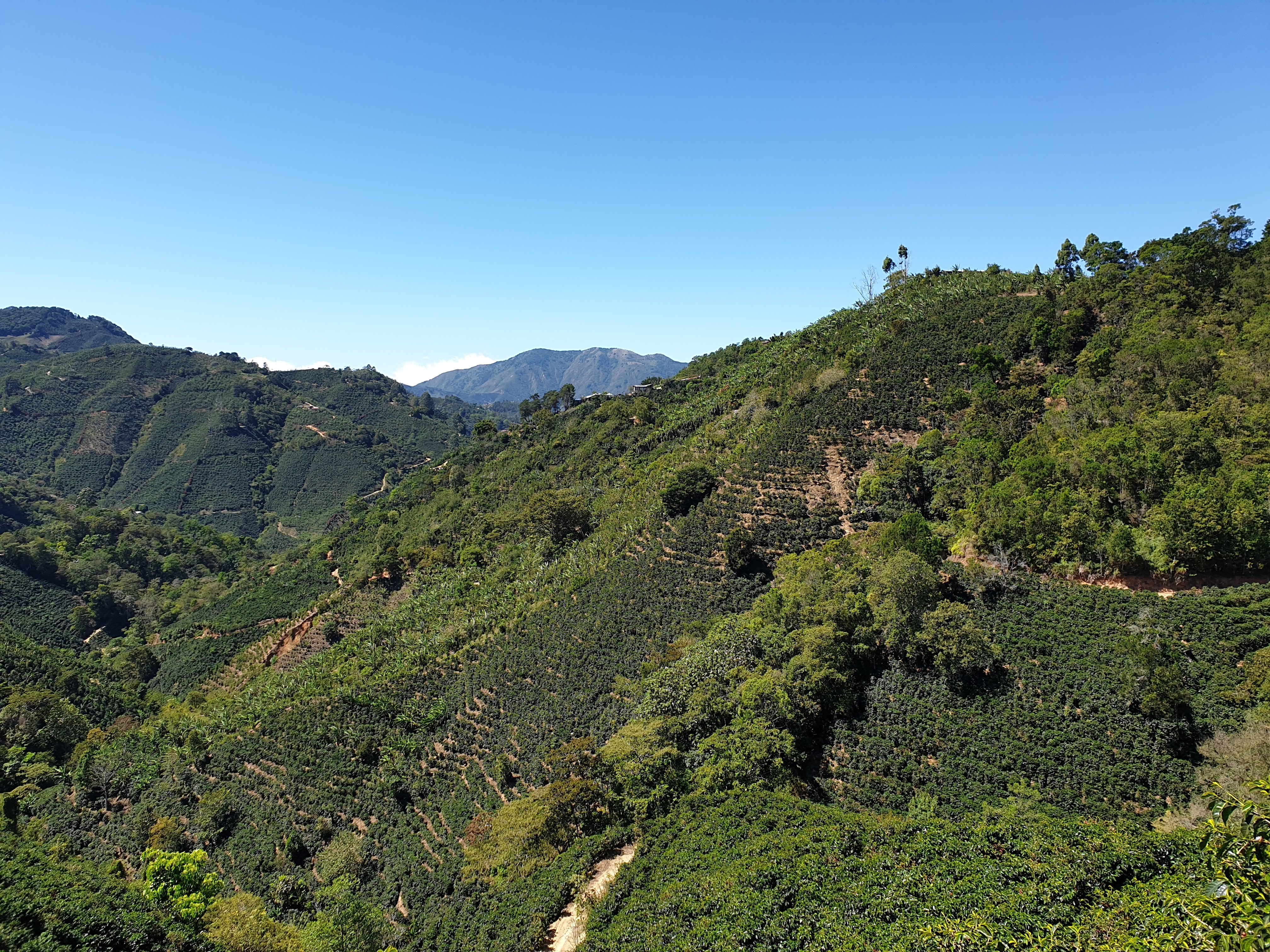 A view showing different coffee plantations on the Camino de Costa Rica